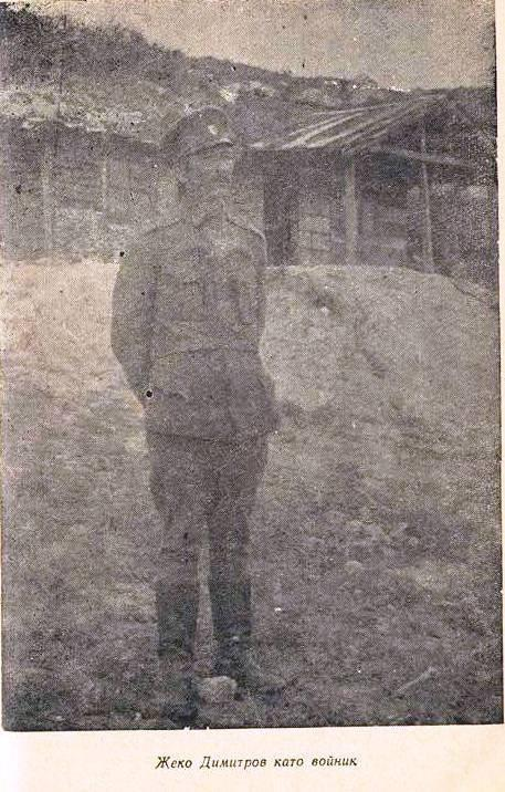 Jheko Dimitrov 03